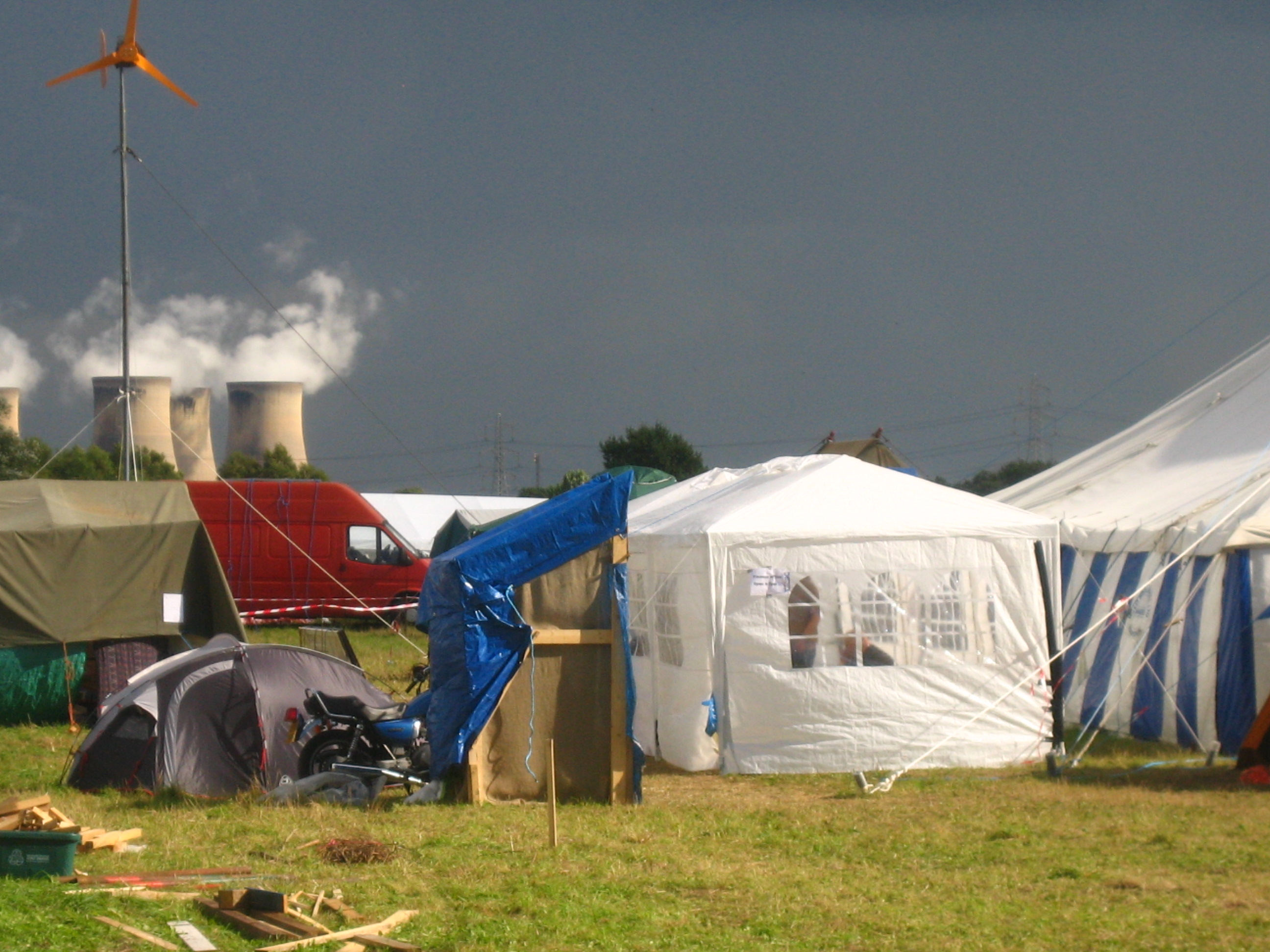 view of power station cooling towers from the camp by Akuppa